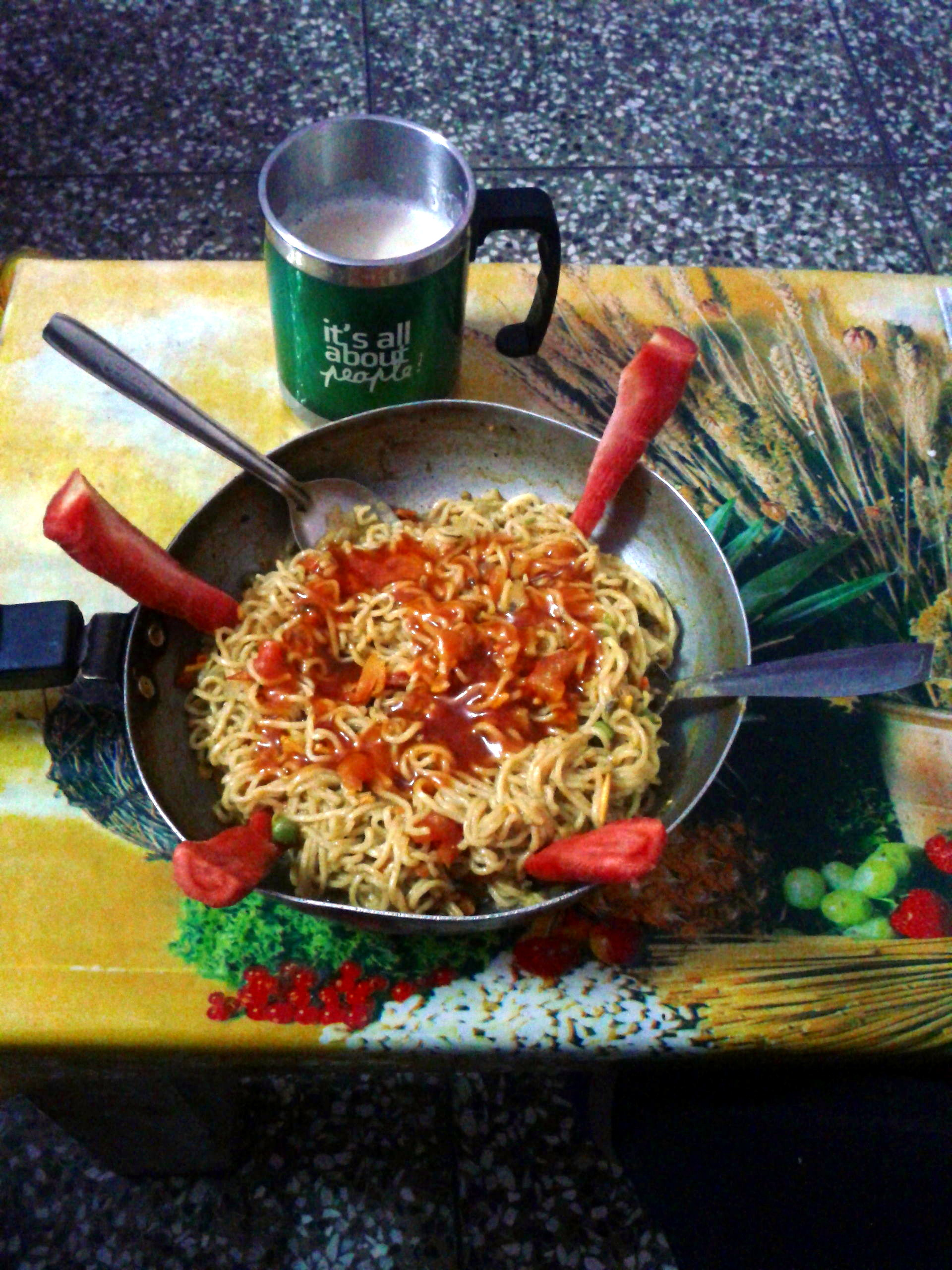 What a combination with Maggi with carrot piece and Tea flavored Milk.